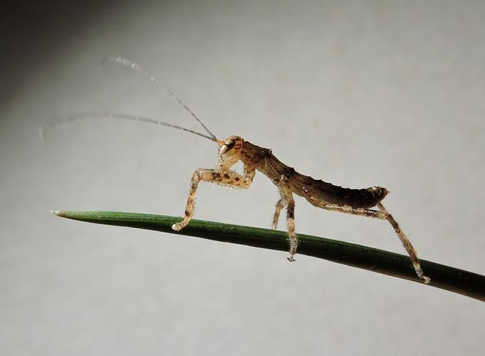 Mantophasmatidae from near Vioolsdrif, Namaqualand, South Africa